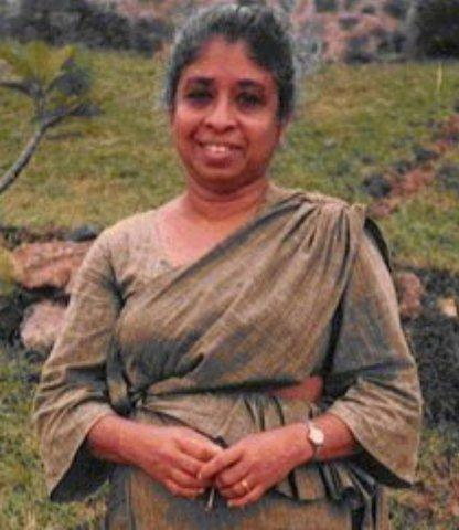 Photograph of Mrs. V.B Wijeyeratne, This photo is solely owned by the Wijeyeratne family & have given me the copy rights. If you need any clarification of this photo you may contact Name : Anuradha Dullewe Wijeyeratne Address: 168/ 7, Inner Flower Road, Colombo 7, Sri Lanka. I am the Copyright holder of this photo